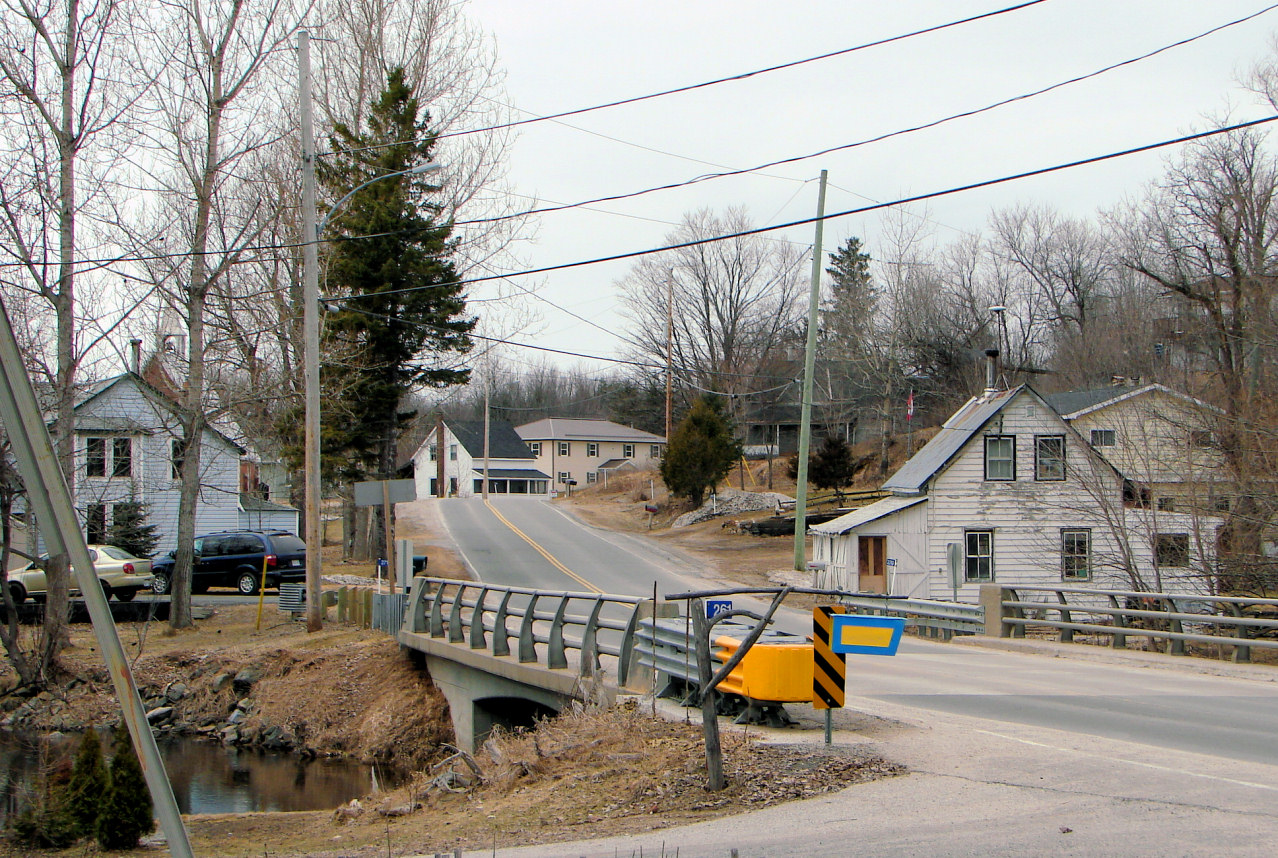 Maberly (Township of Tay Valley), Ontario, Canada